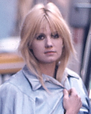 Miou-Miou during the filming of "D'Amour et d'eau fraîche" in 1975